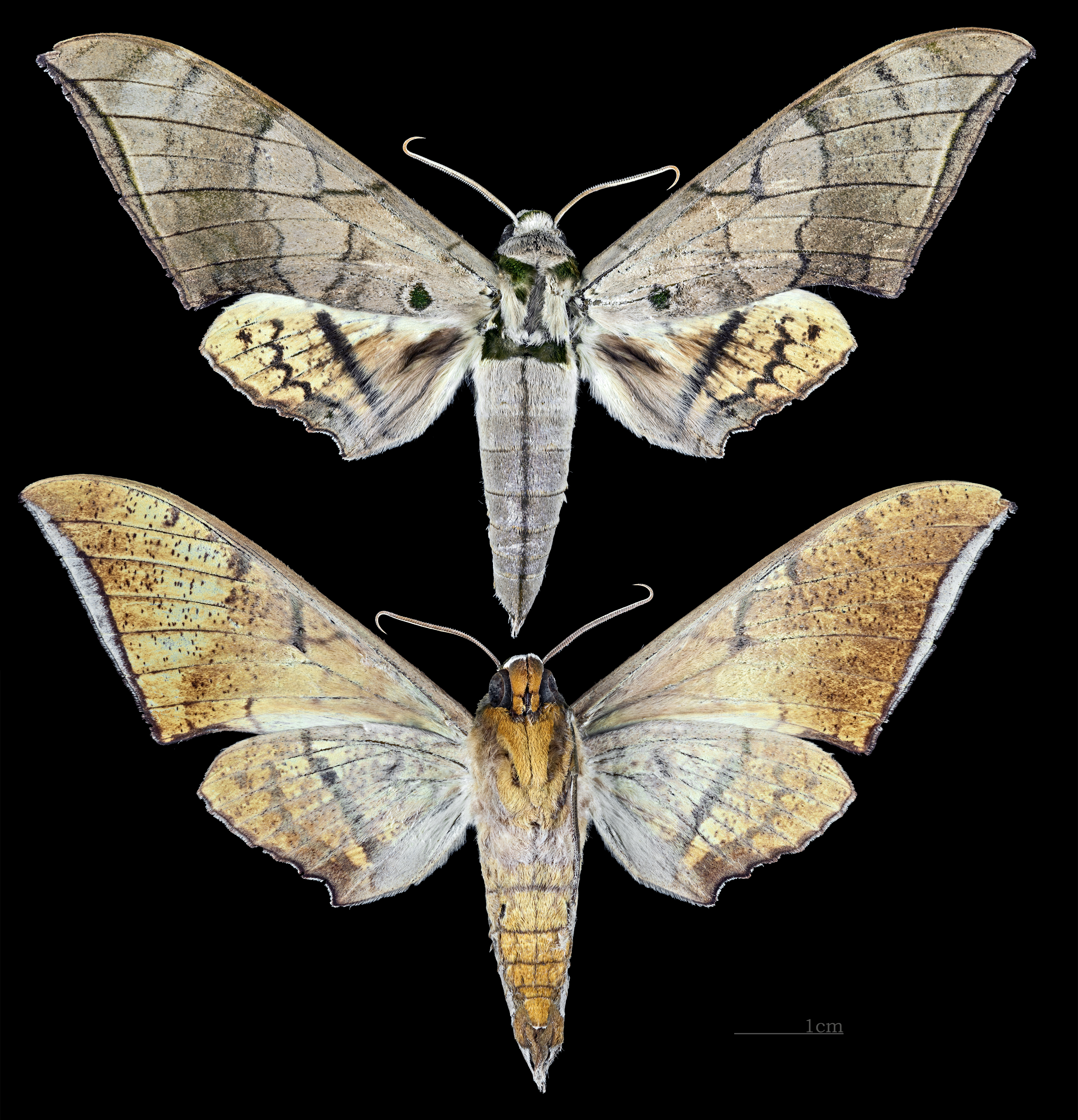 Ambulyx wildei - Two views of same specimen Collection of the Mathematician Laurent Schwartz